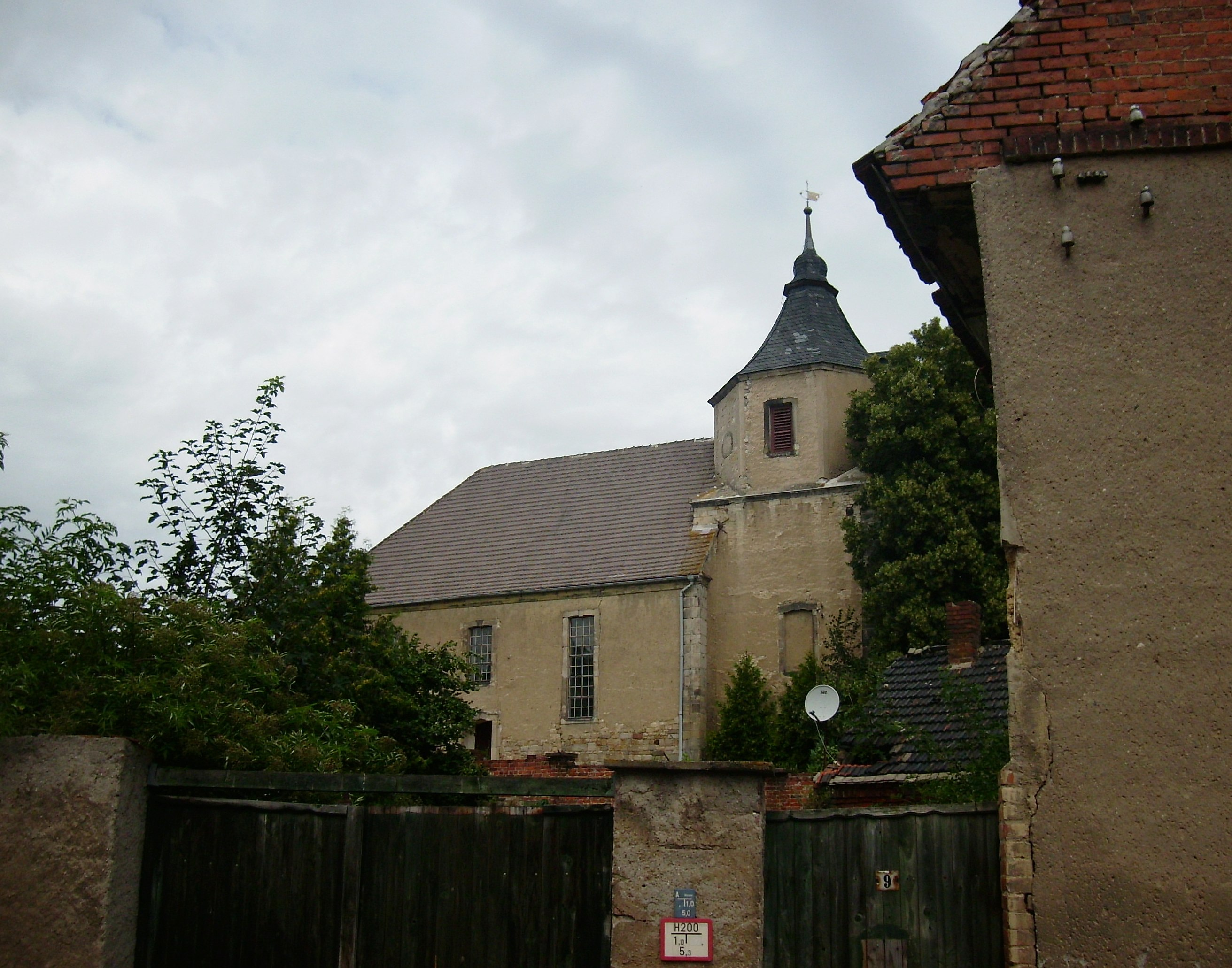 Church of the village of Tagewerben (Weissenfels, district of Burgenlandkreis, Saxony-Anhalt)